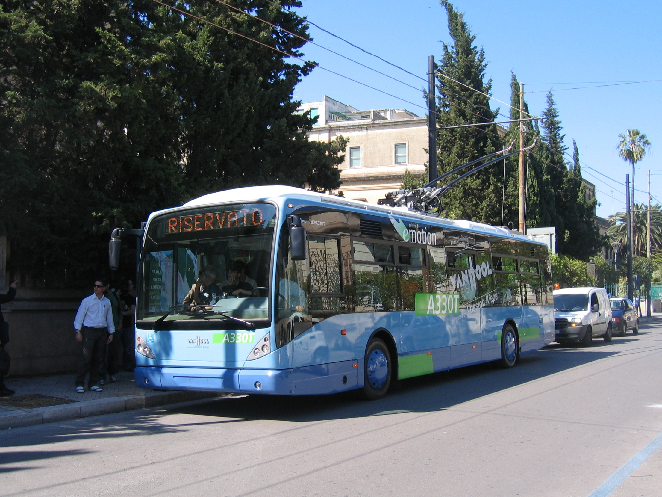 A Van Hool A330T trolleybus for the Lecce (Italy) trolleybus system, on Viale Francesco Lo Re.